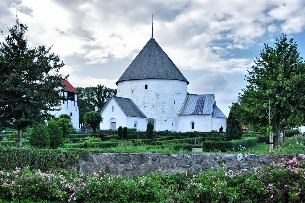 Nylars Church on Bornholm in Denmark